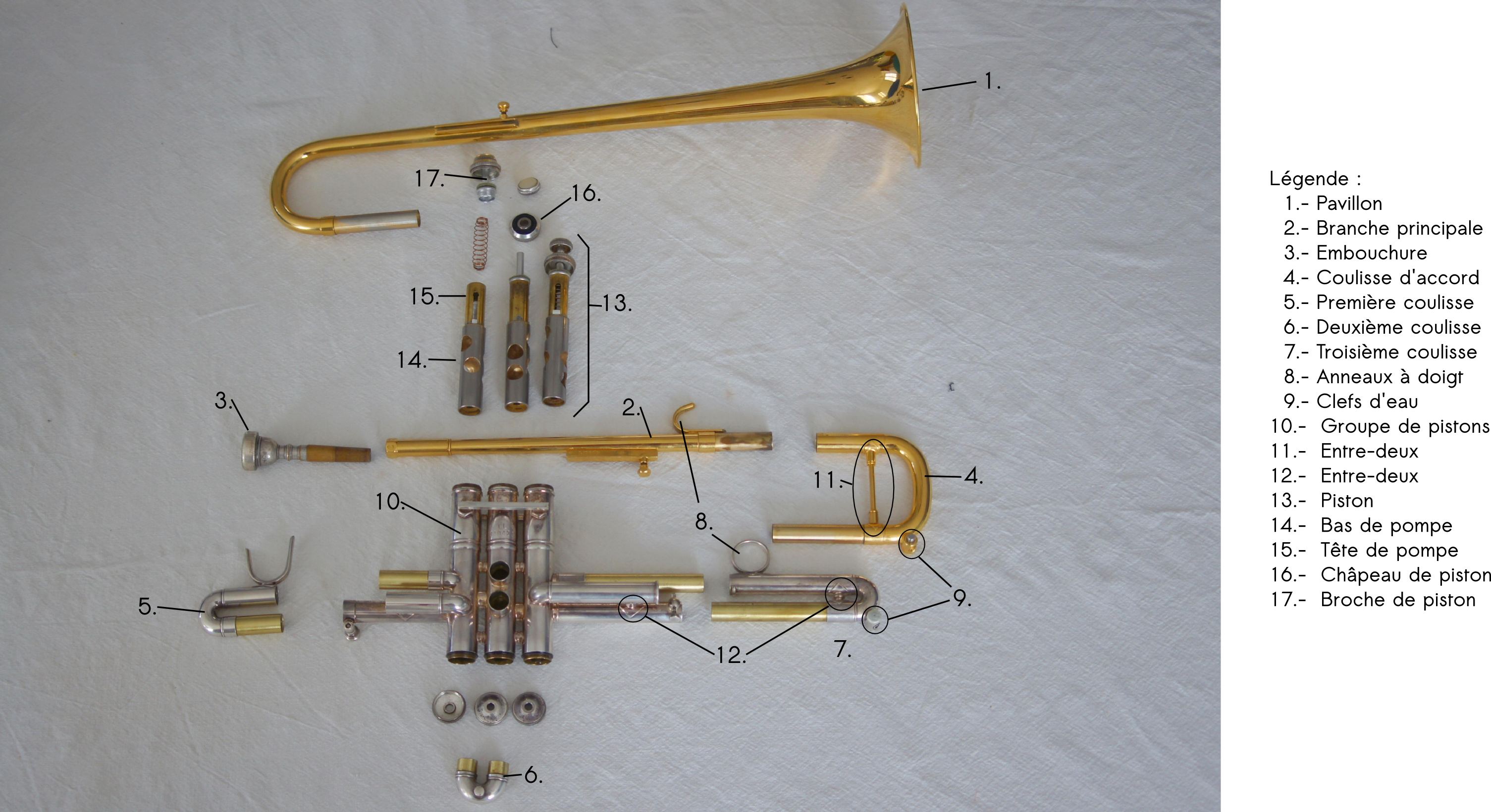 Names of the components of the modern trumpet.